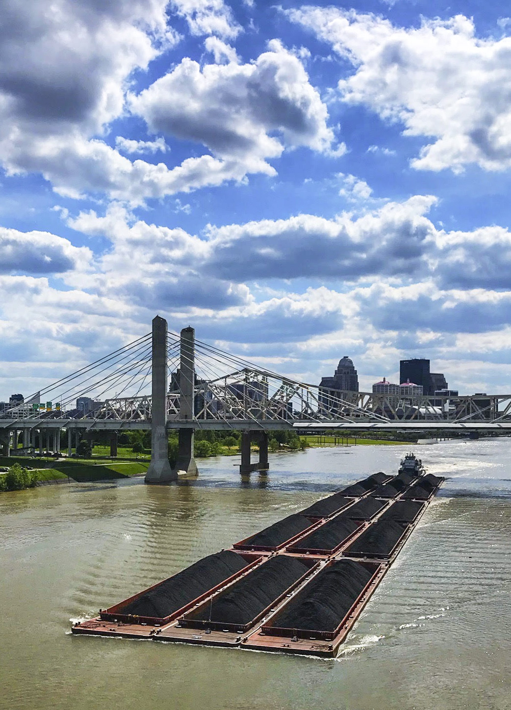 A barge heads along the Ohio River eastward with the Louisville skyline and Abraham Lincoln Bridge as well as the George Rogers Clark Bridge in the background.